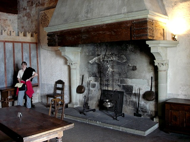 Chillon